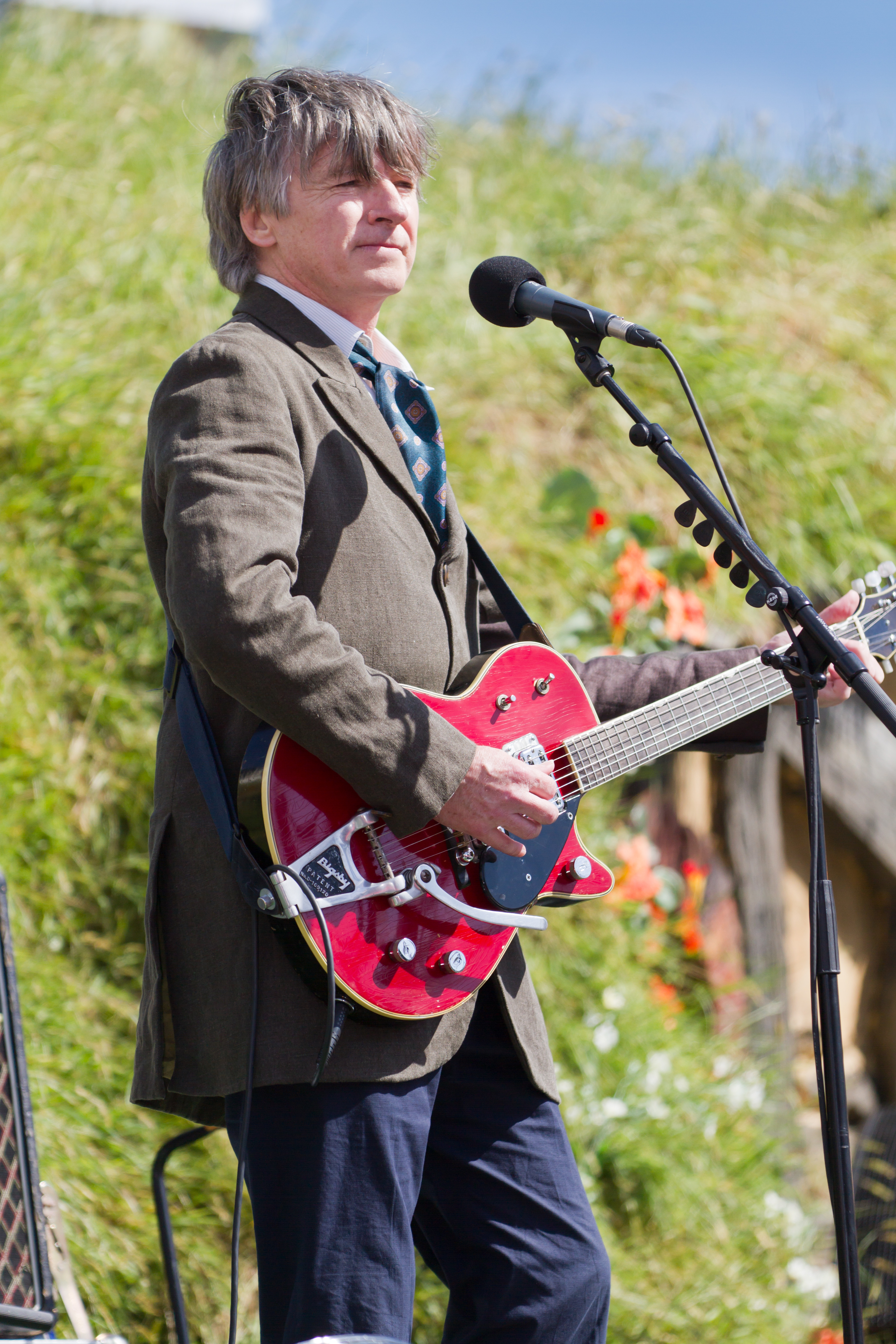 Finn at the world premiere of The Hobbit - An Unexpected Journey - November 2012 Wellington, New Zealand. More photos available at